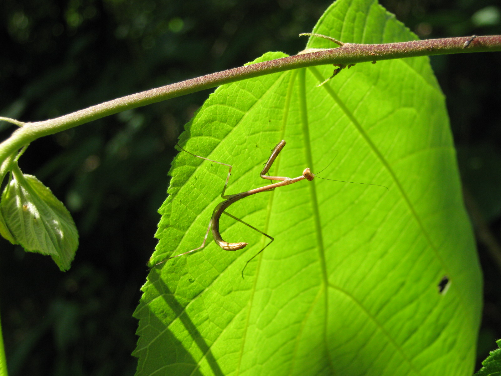 Praying mantis